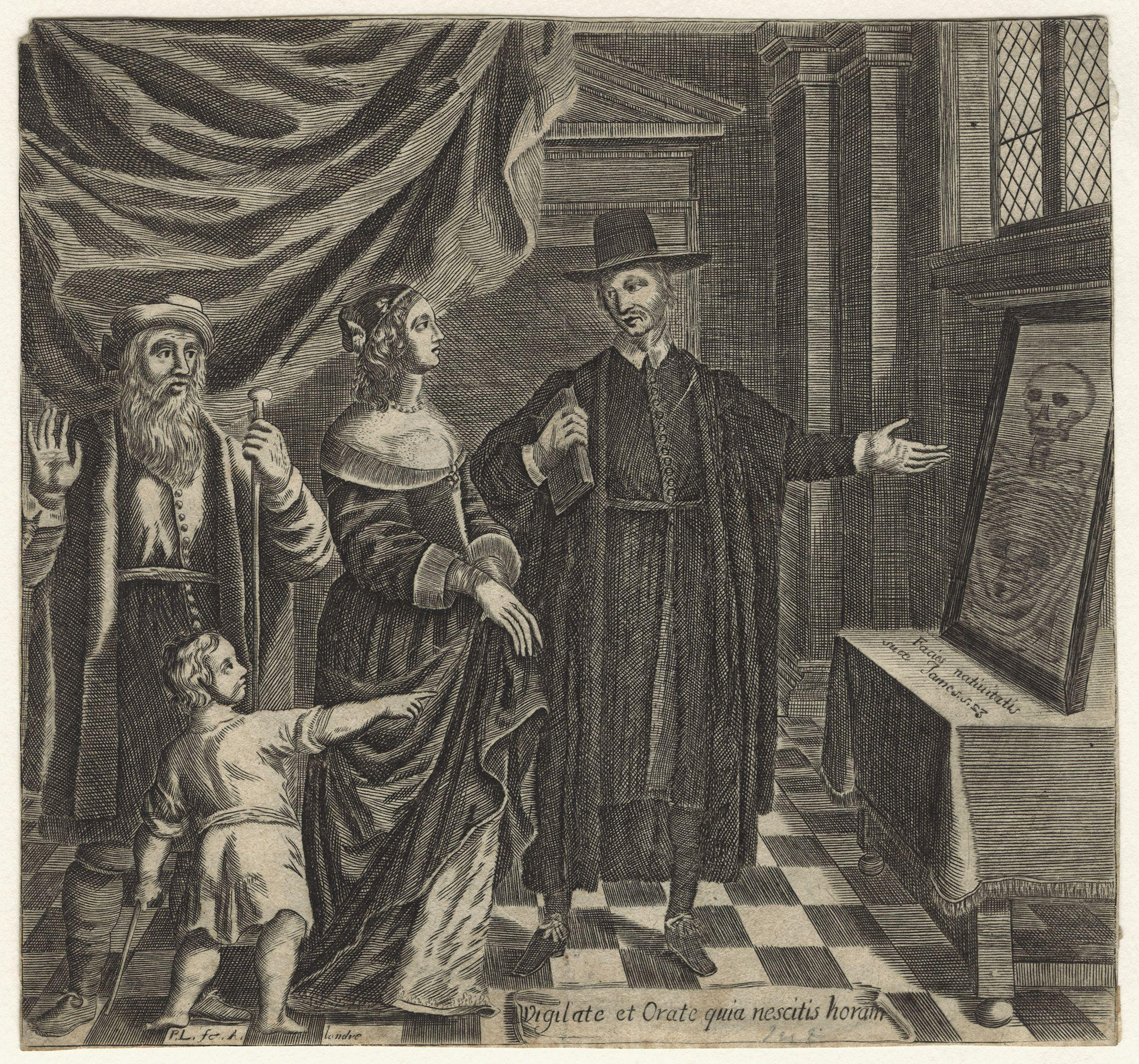 Jeremy Taylor with figures representing youth, maturity and old age, by Pierre Lombart, published 1650. According to the NPG's website the work was published prior to 1859, and so the author is reasonably presumed dead by 1939.